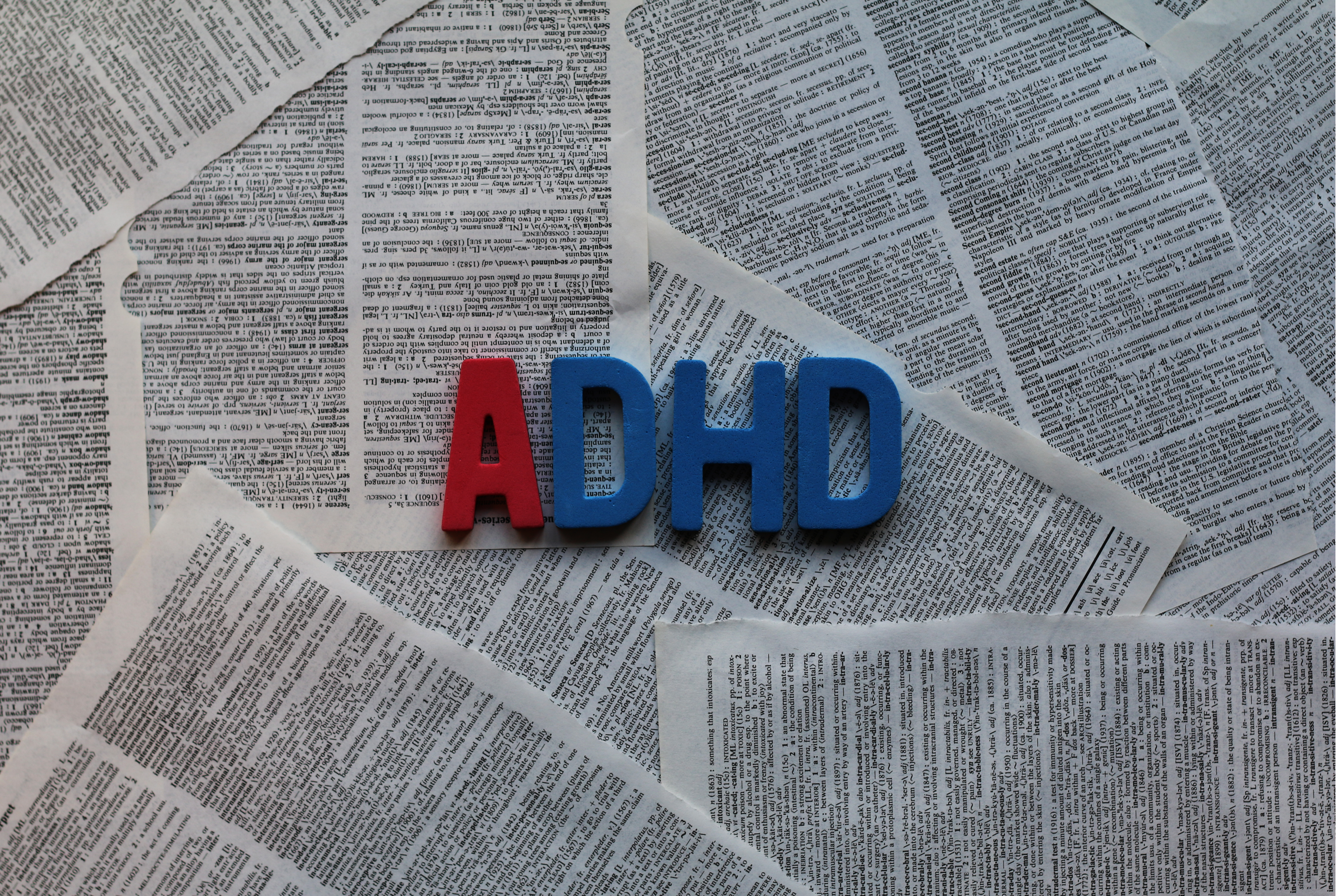 People with ADHD often find it difficult to organize paperwork.